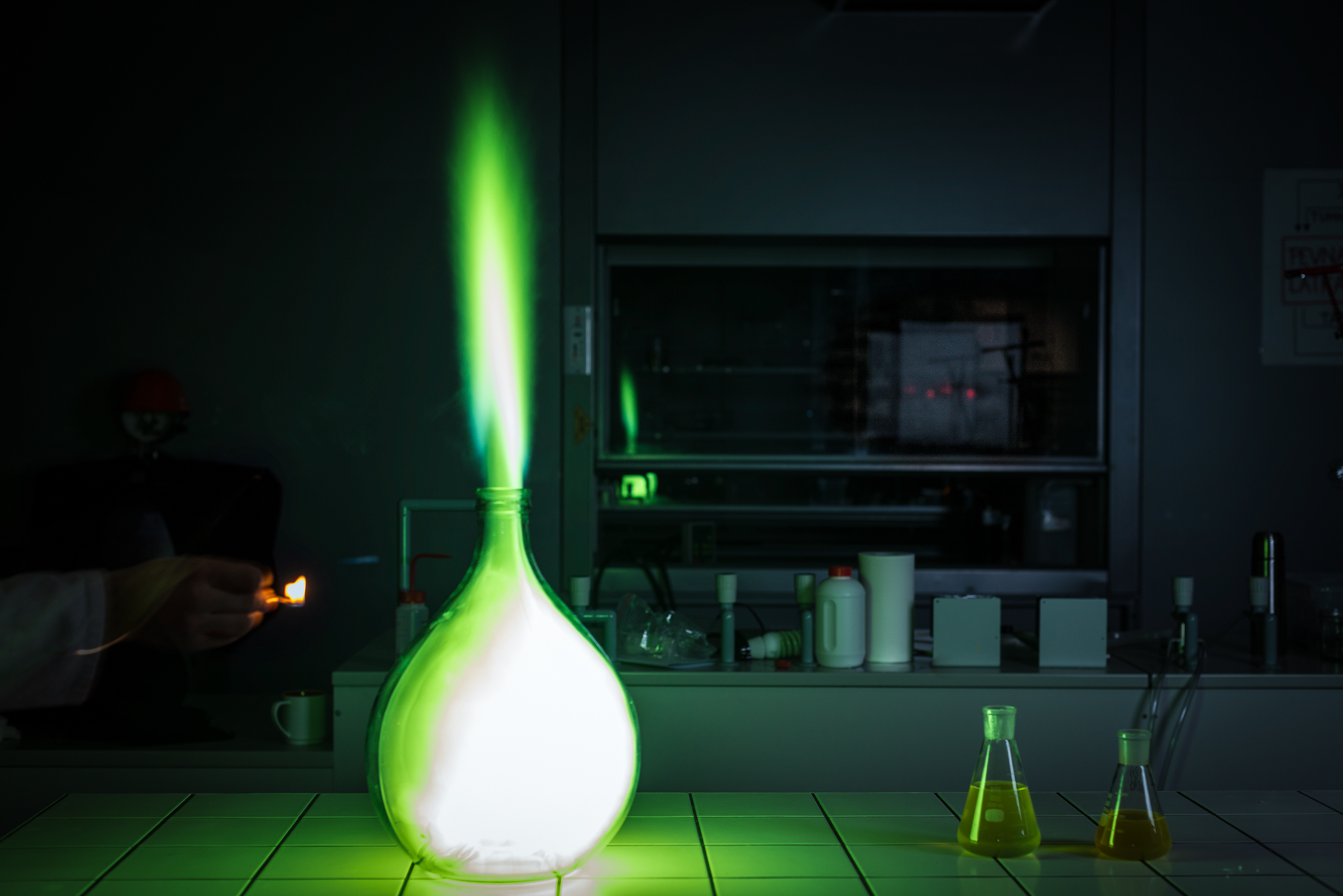 Powerful flame of triethyl borate in Vida! Science Centre Brno